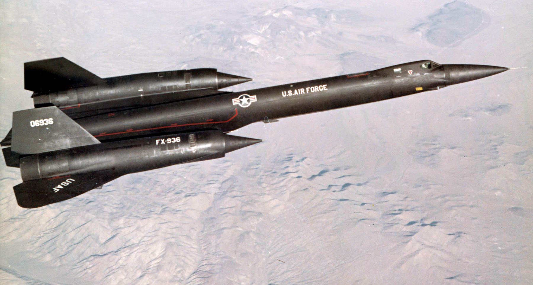 Lockheed YF-12 (S/N 60-6934) in test flight.